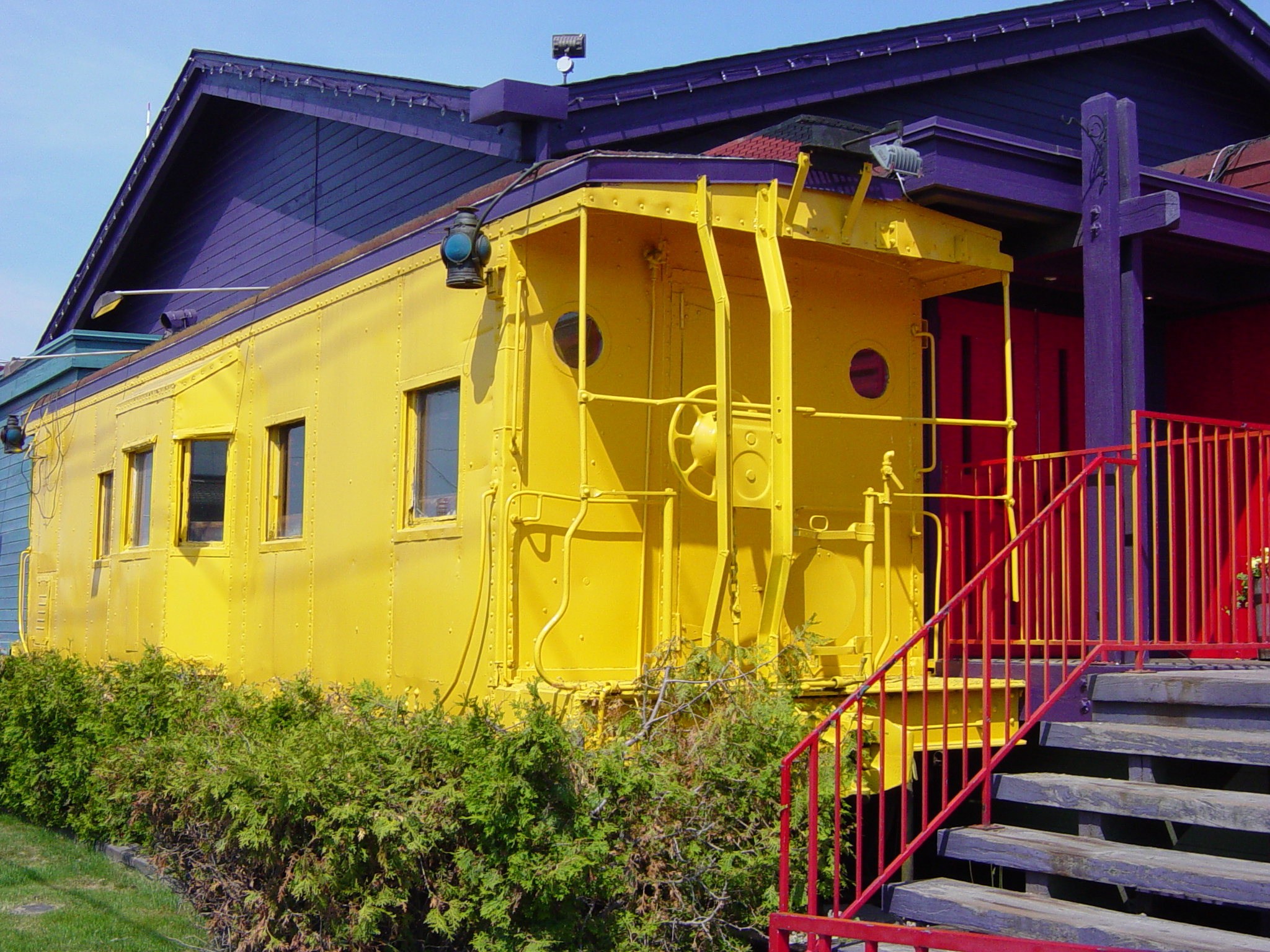 Caboose used as a portion of a restaurant. Location: Toronto Image by User:Leonard G. The structure (other than the roof) is mostly an arrangement of various railcars.